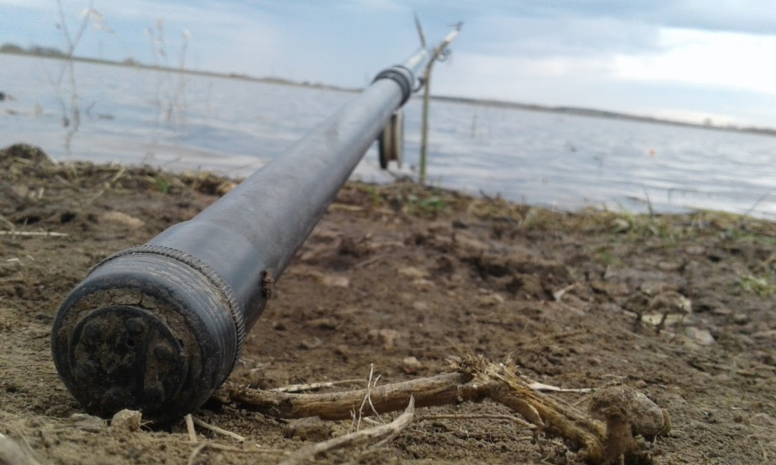 Удочка на ловле рыбы